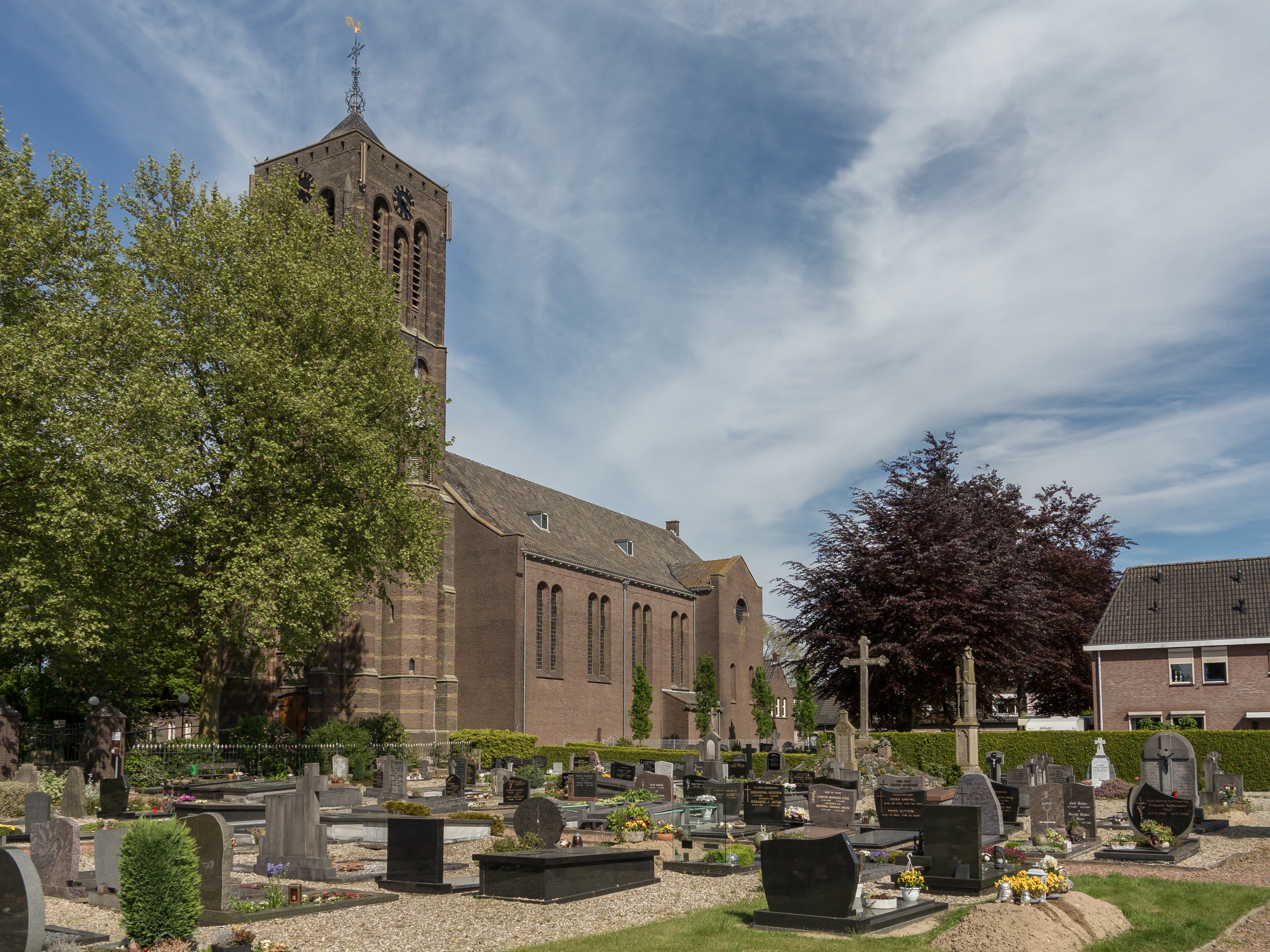 Azewijn, church: de Mattheüskerk